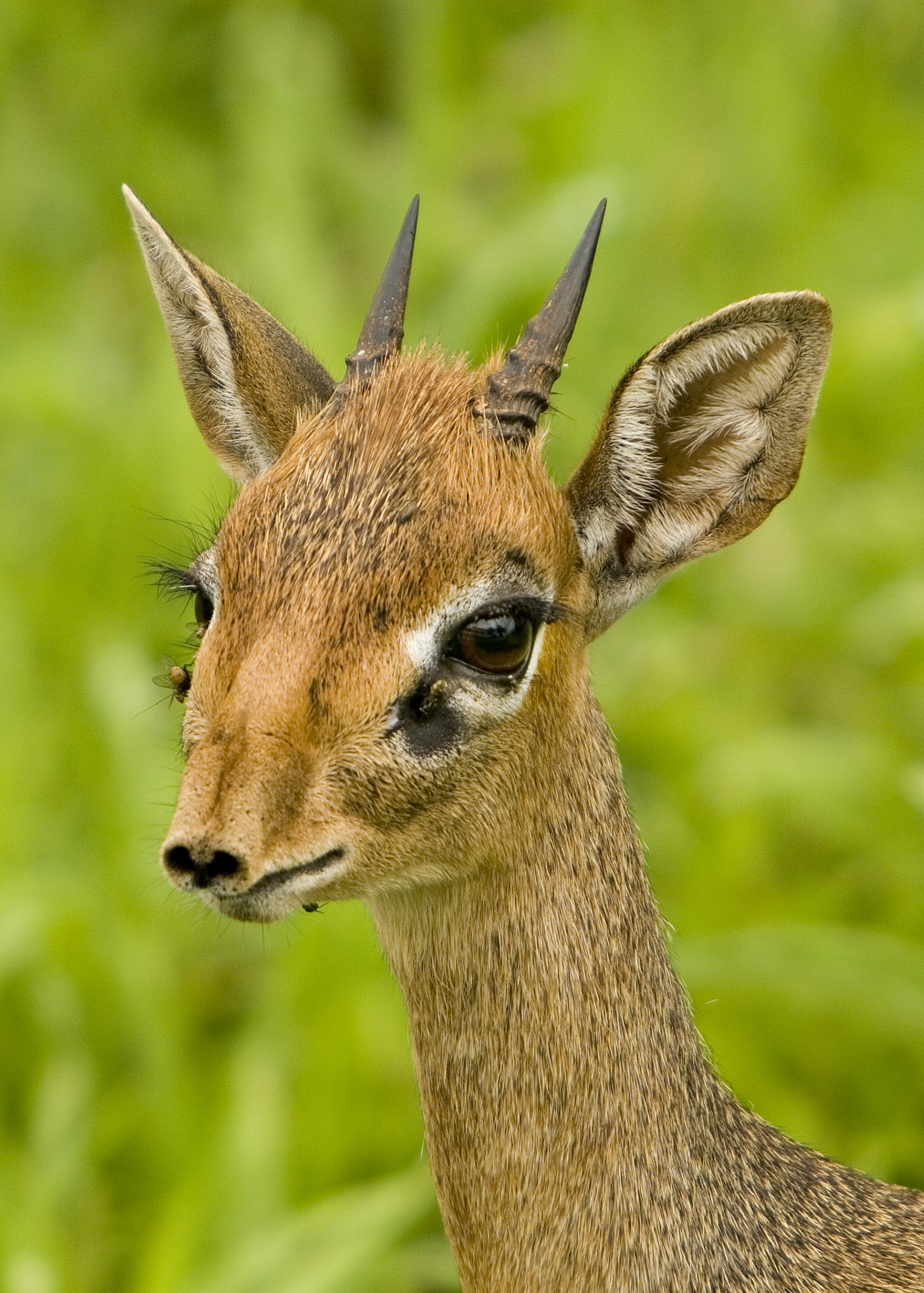 I believe this was a baby, but it's hard to say as Dik-diks only grow to be about 30–40 cm at the shoulder and weigh only 3–5 kg.